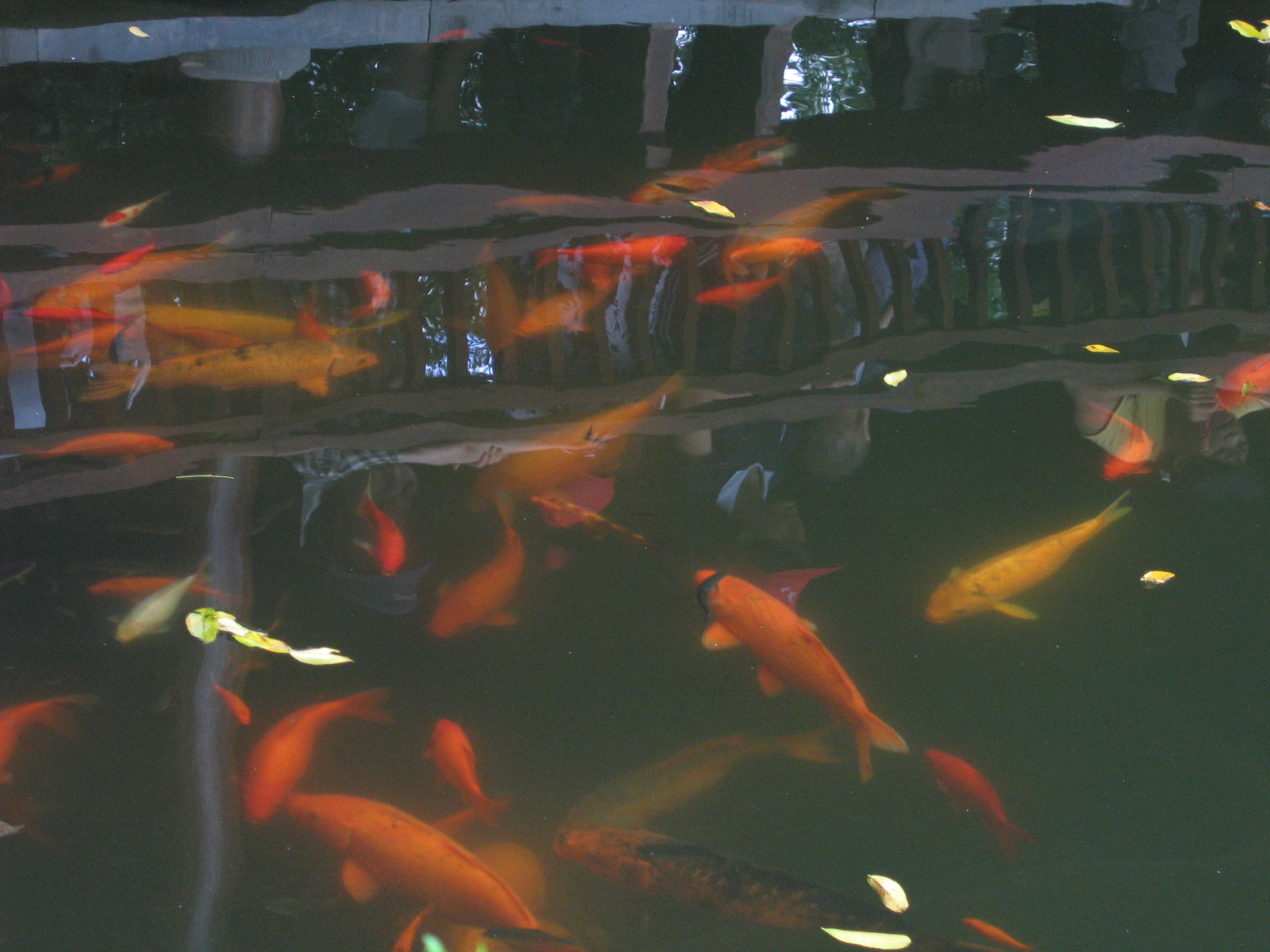 China Hangzhou Flower Harbour